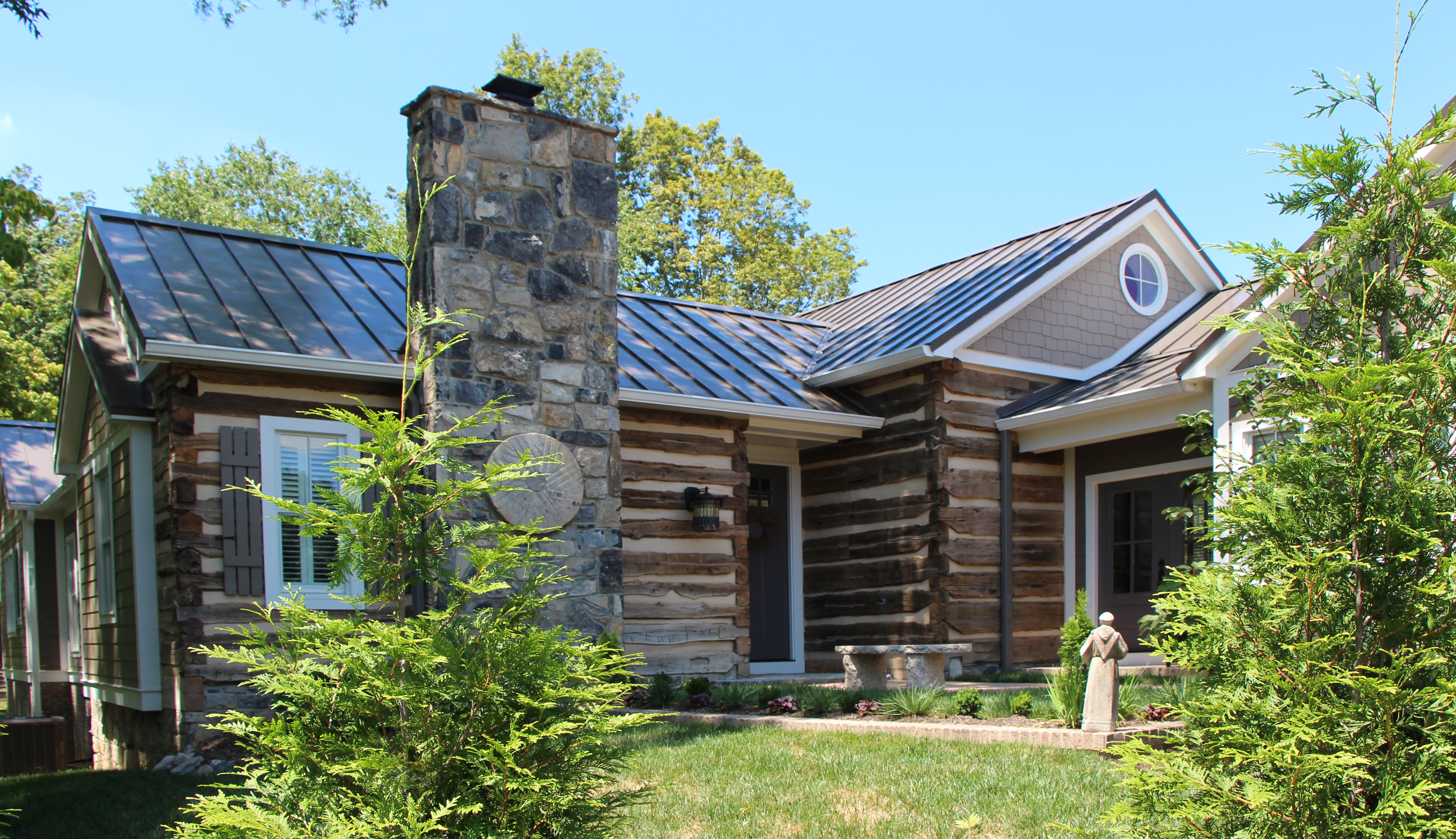 Antrium Log Cabin, Greeneville, TN